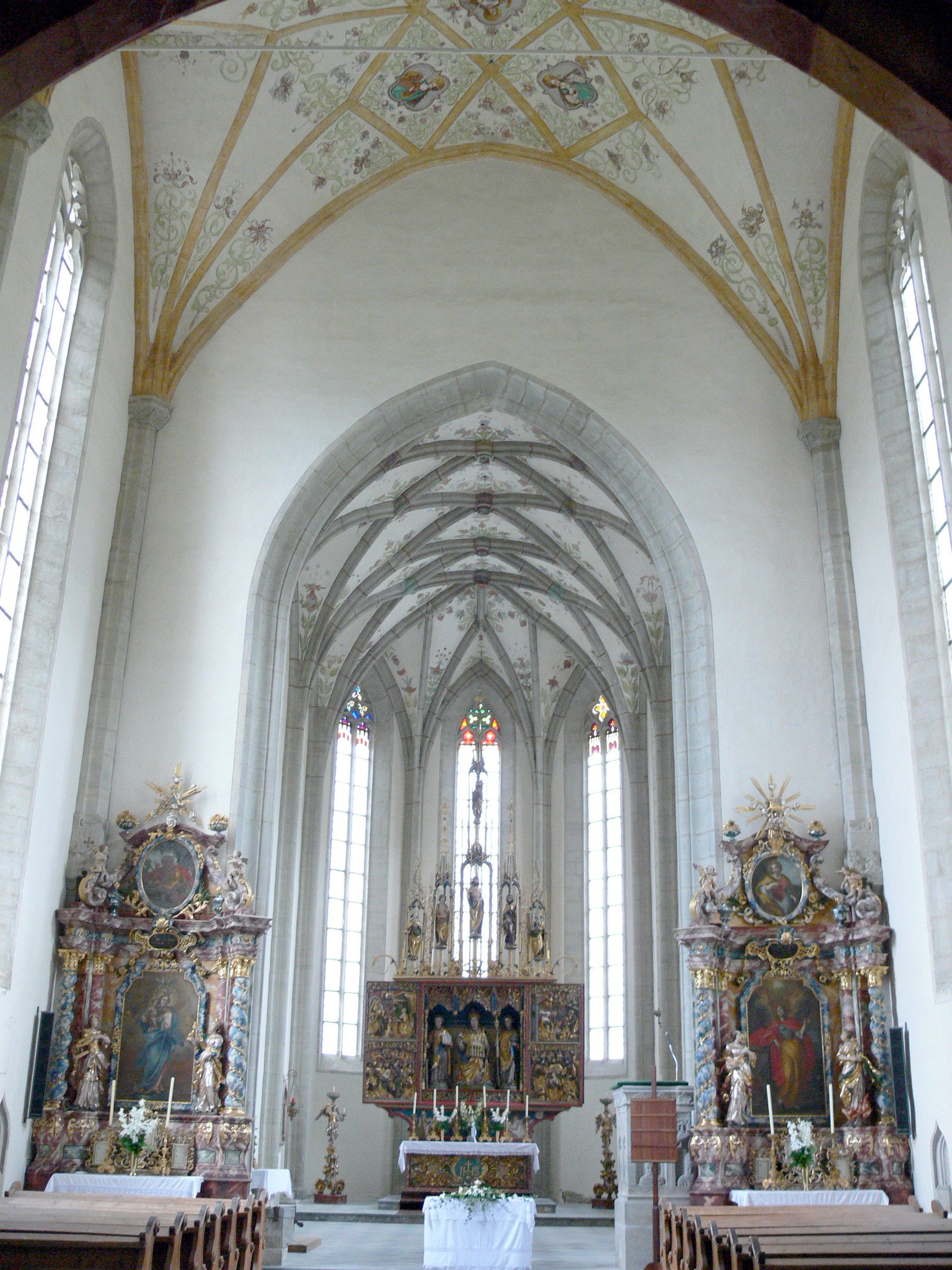 St.Wolfgang in Grades. Interior.